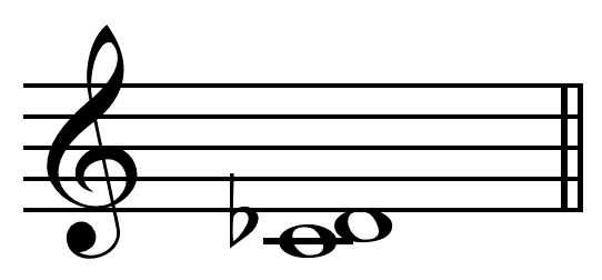 Minor second on C = D♭. Just: 27:25 = 133.24 cents. Equal-tempered: 21/12:1 = 100 cents.